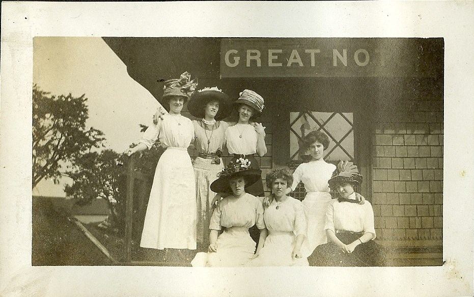 Great Notch Station circa 1912, Passaic County, New Jersey, USA